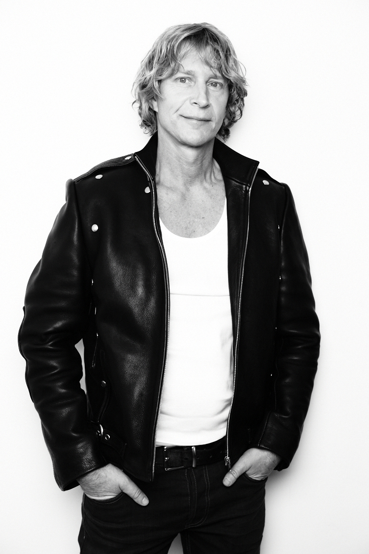 Image